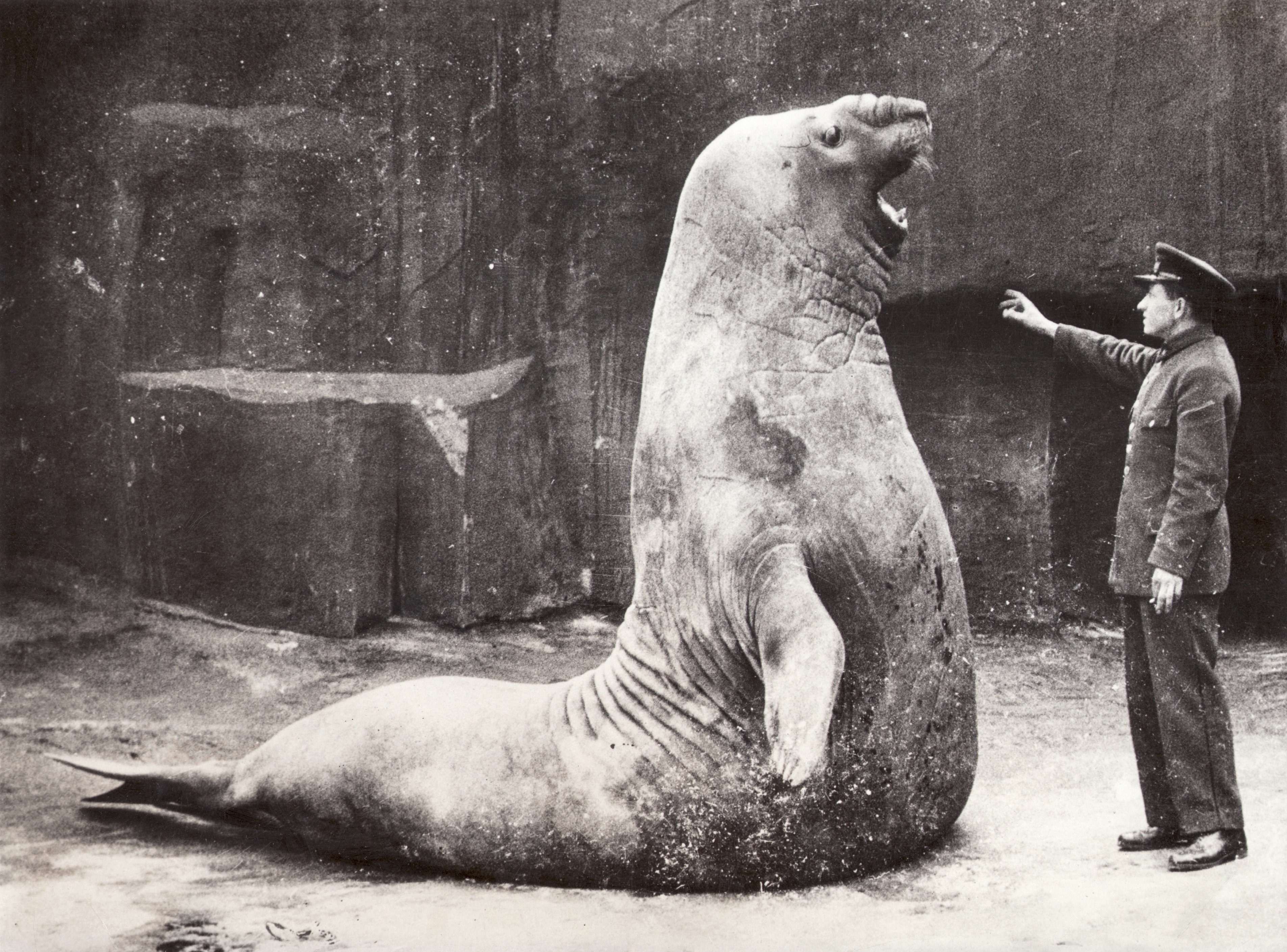 Shows a very large elephant seal named Goliath at the Vincennes Zoo, Paris, with zoo staff member.